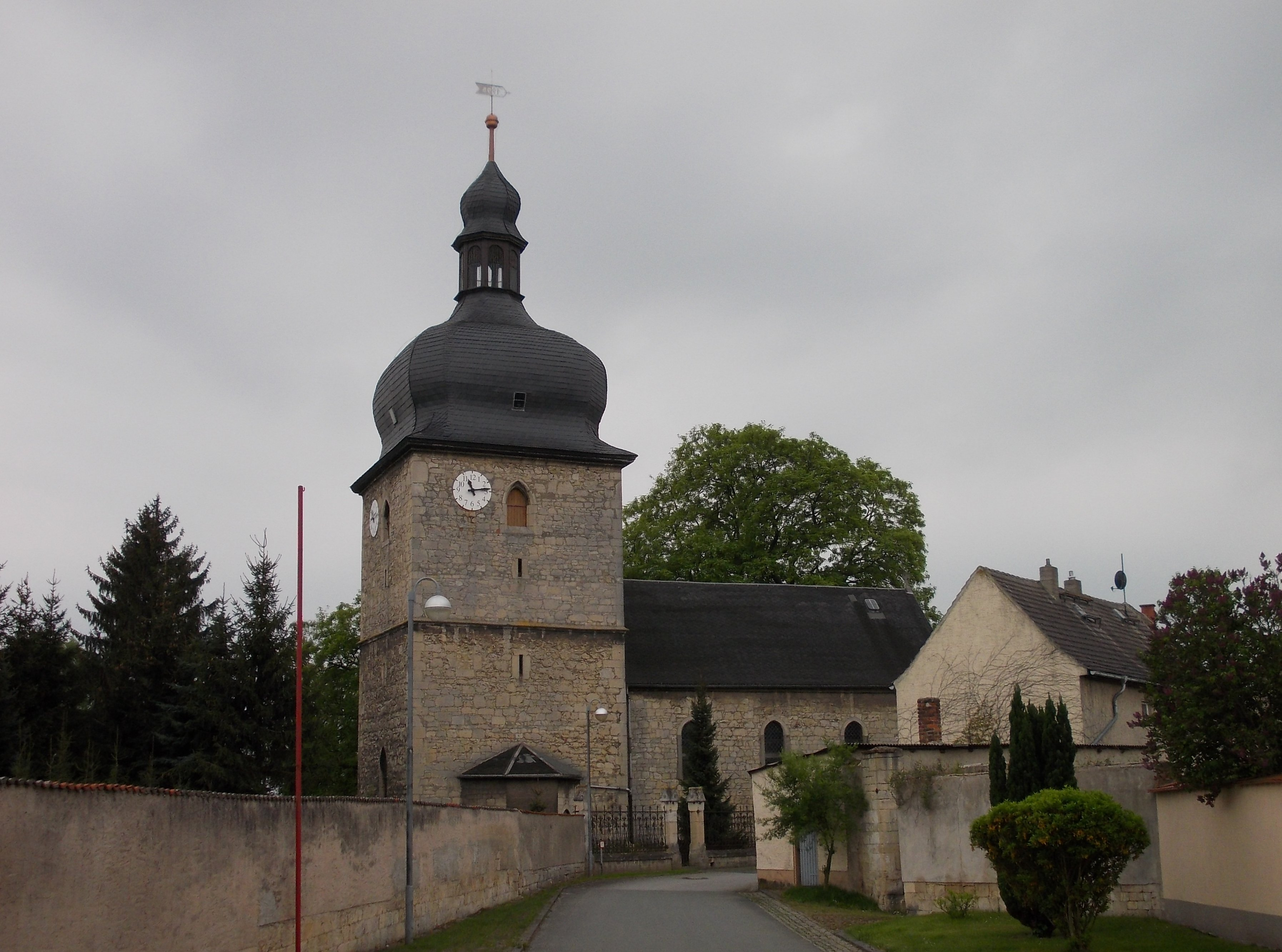 Burkersroda church (Balgstädt, district: Burgenlandkreis, Saxony-Anhalt)